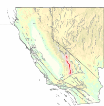 Schematic of the Sierra Nevada Fault Zone in California.